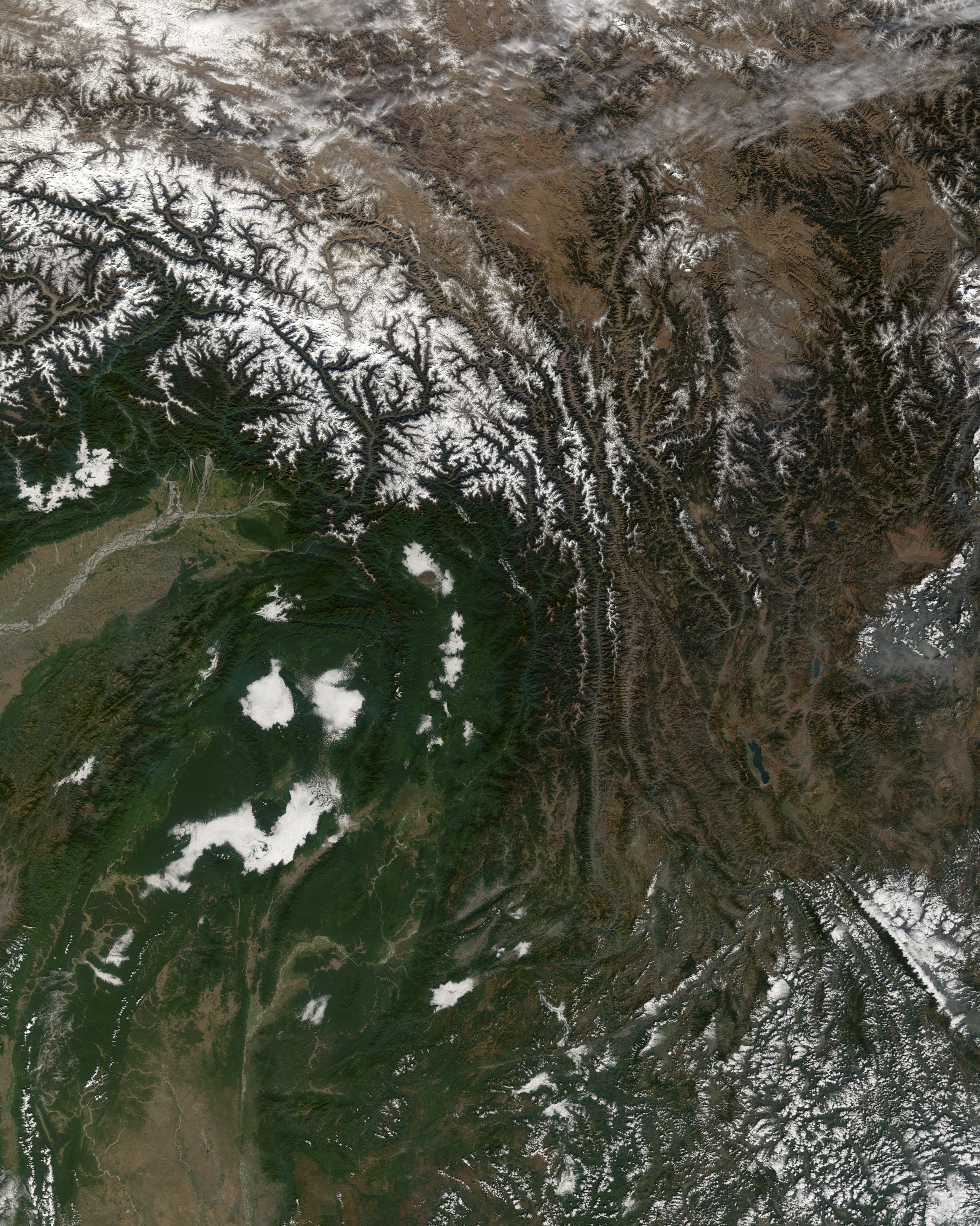 The Hengduan Mountains, in Tibet, China, and Burma. With the Hengduan Mountains subalpine conifer forests ecoregion of the Category:Temperate coniferous forests Biome.